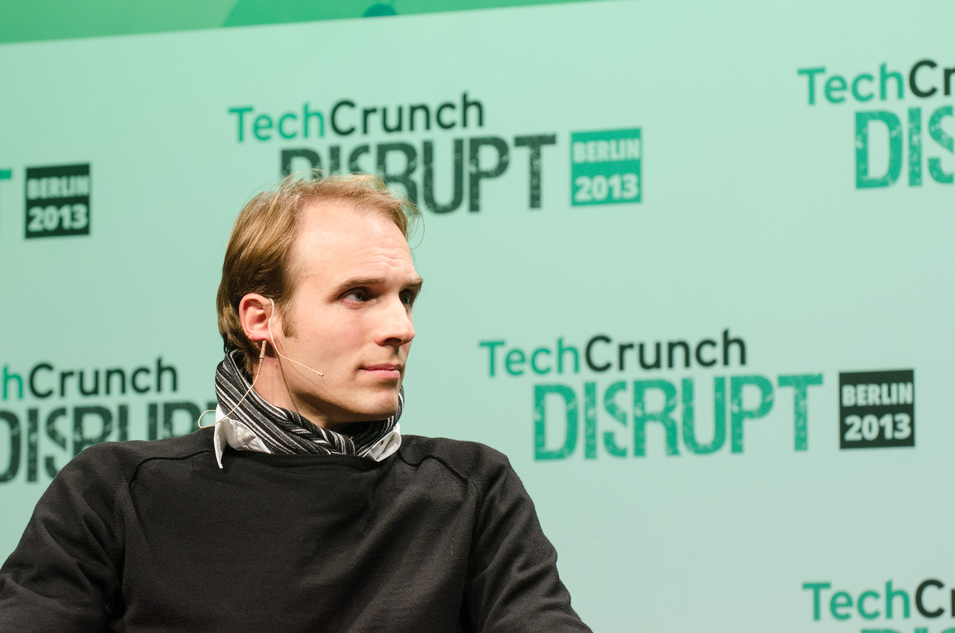 Picture of Marc Samwer